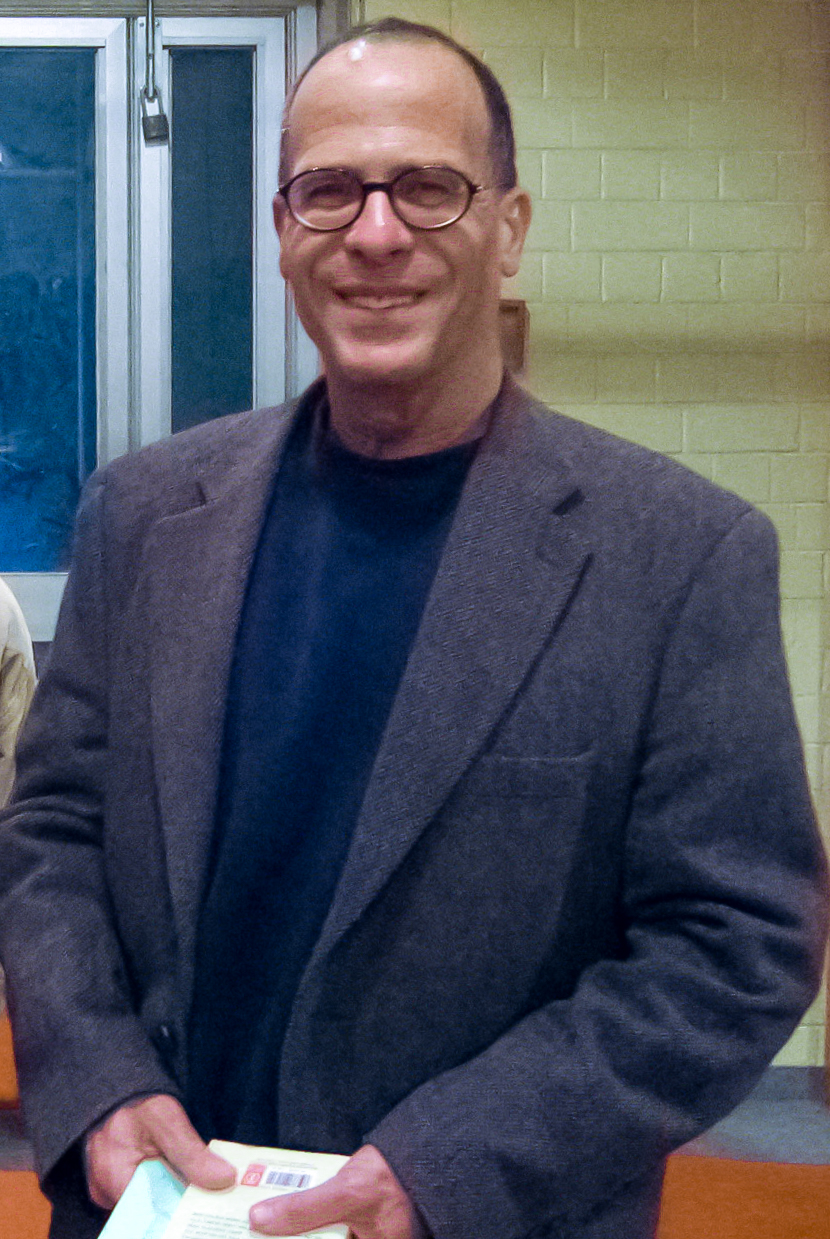 Meir Shalev, Israeli author and columnist, speaking at the The Technion, Haifa, Israel. Mr. Shalev authorized me to publish his photo on Wikipedia. Photo by Beny Shlevich, taken on Jan. 30th, 2006. Photo cropped.